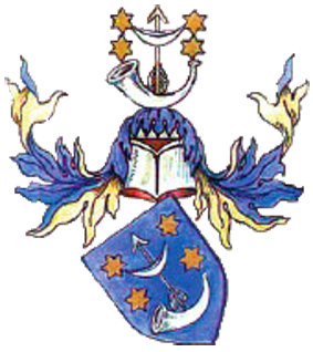 Coat of arms of the House of Dolha and Petrova